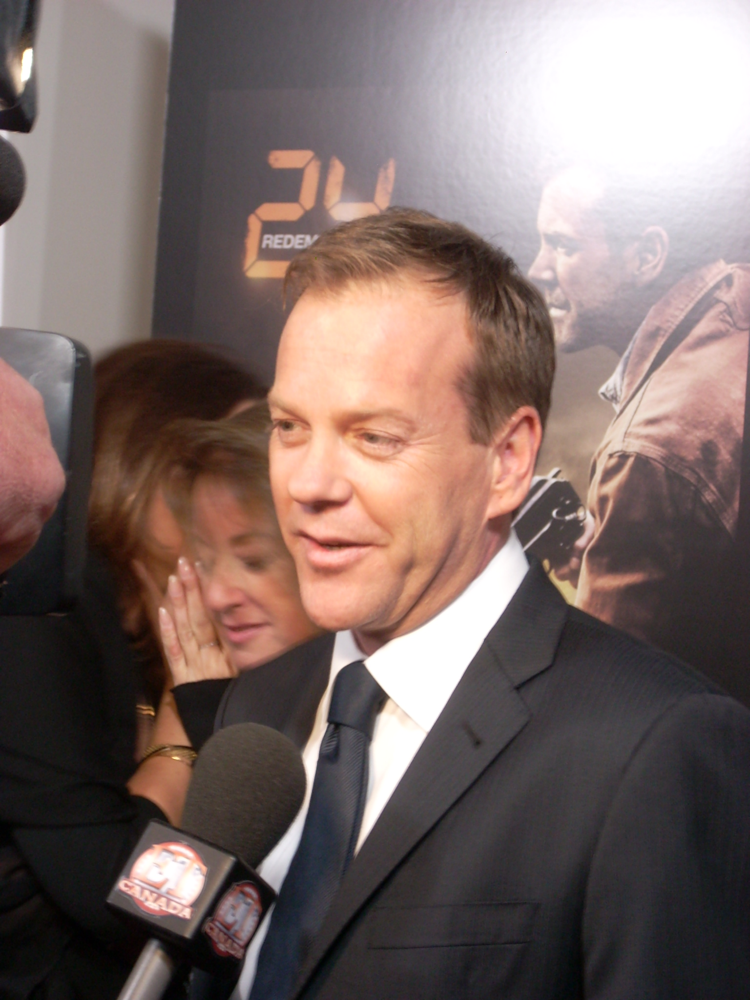 Kiefer Sutherland at the "24: Redemption" Photo Exhibit Opening, Paley Center for Media, Beverly Hills, Calif. - Nov. 10, 2008